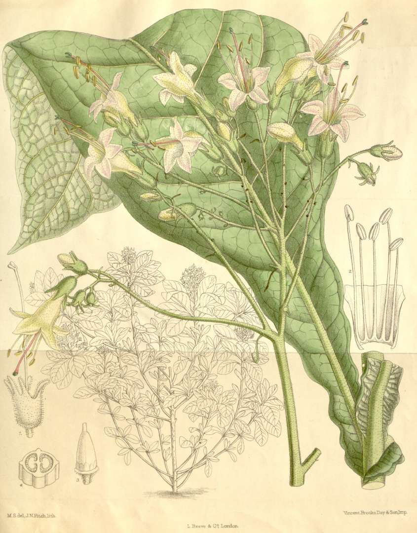 Nicotiana tomentosa